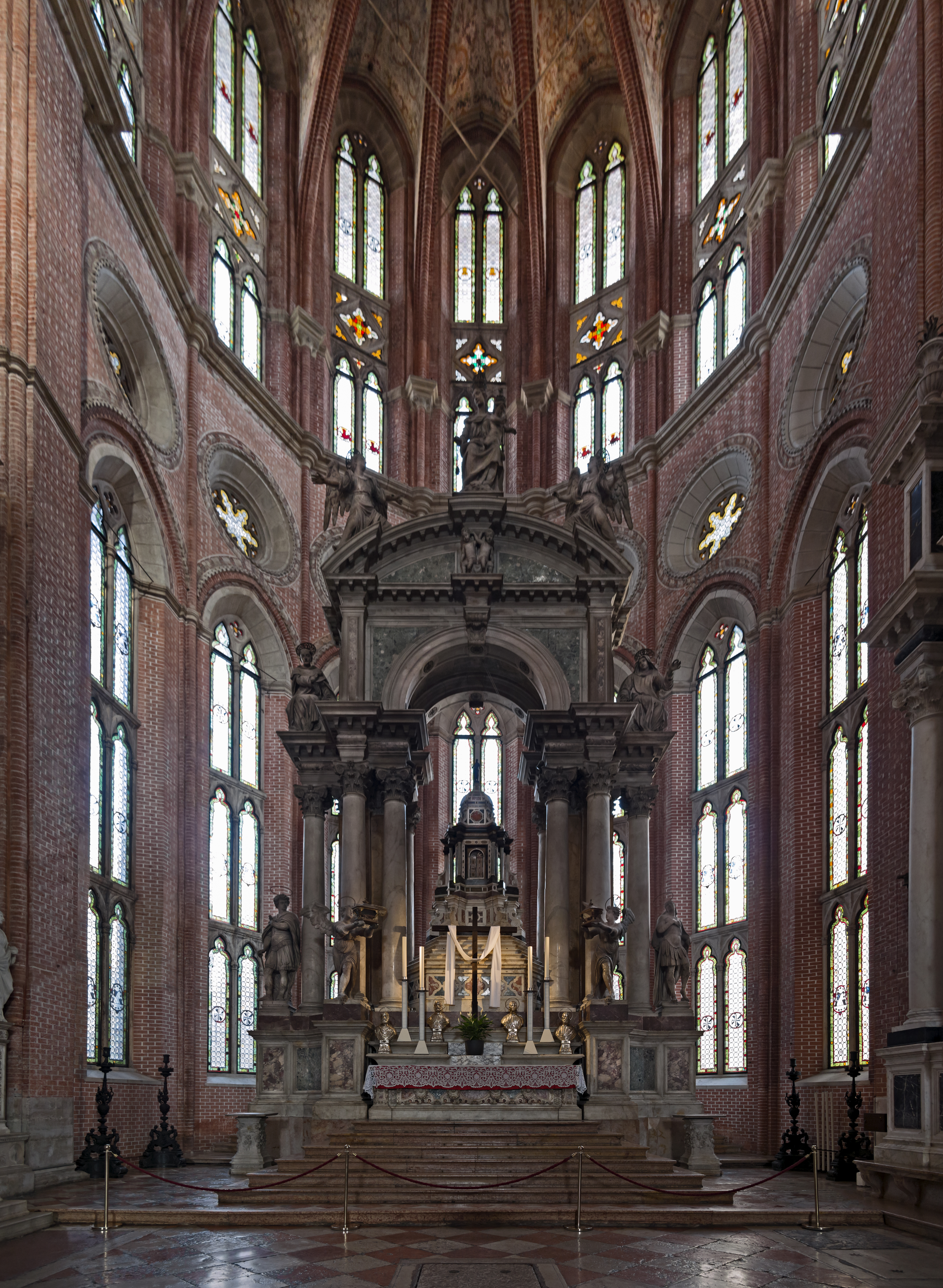 Santi Giovanni e Paolo in Venice. View of the Choir - High Altar by Mattia Carneri, decorated with statues by Clemente Moli and Francesco Cavrioli 1619.